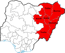 Map showing the location of the former Northeastern State of Nigeria.